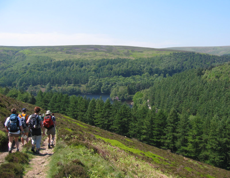 Walkers on Little Howden Moor, above Derwent Reservoir. Photograph by T. Chalcraft